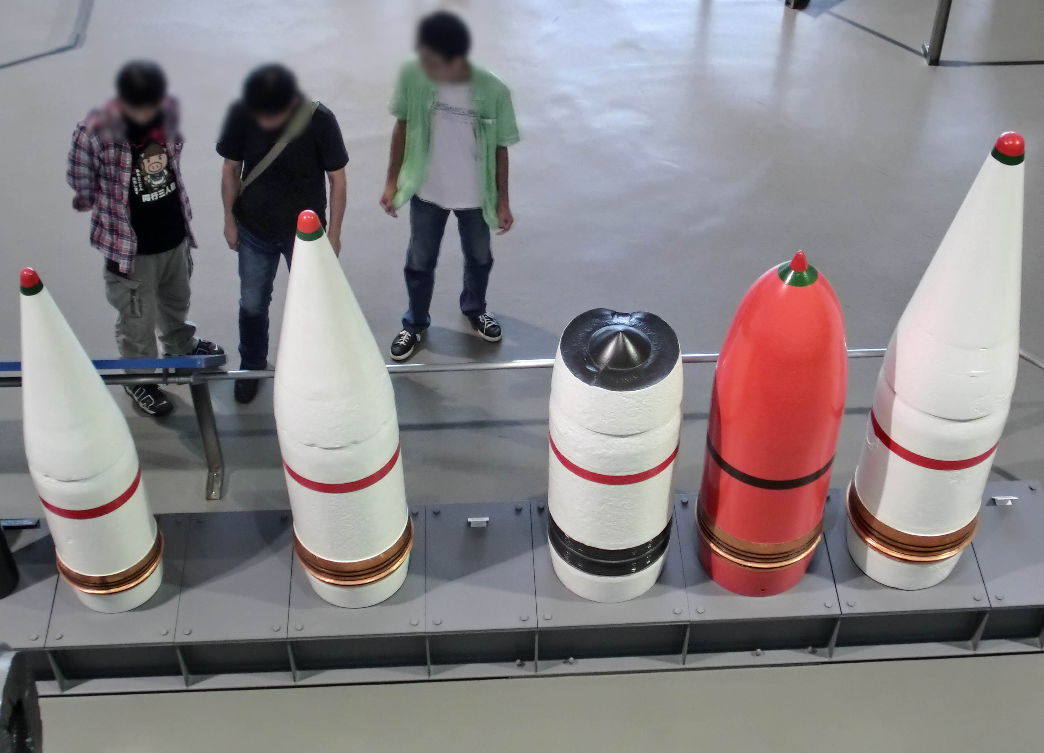 Shells of World War II Imperial Japanese Navy Battleships: 1x36cm, 1x41cm and 3x46cm.